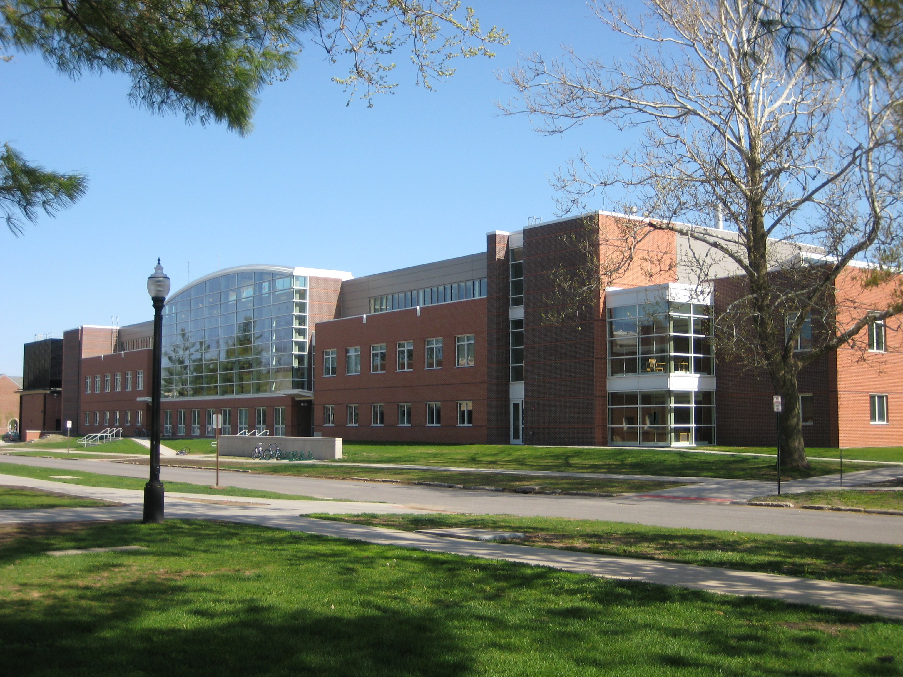 Grinnell College-Robert Noyce Science Center